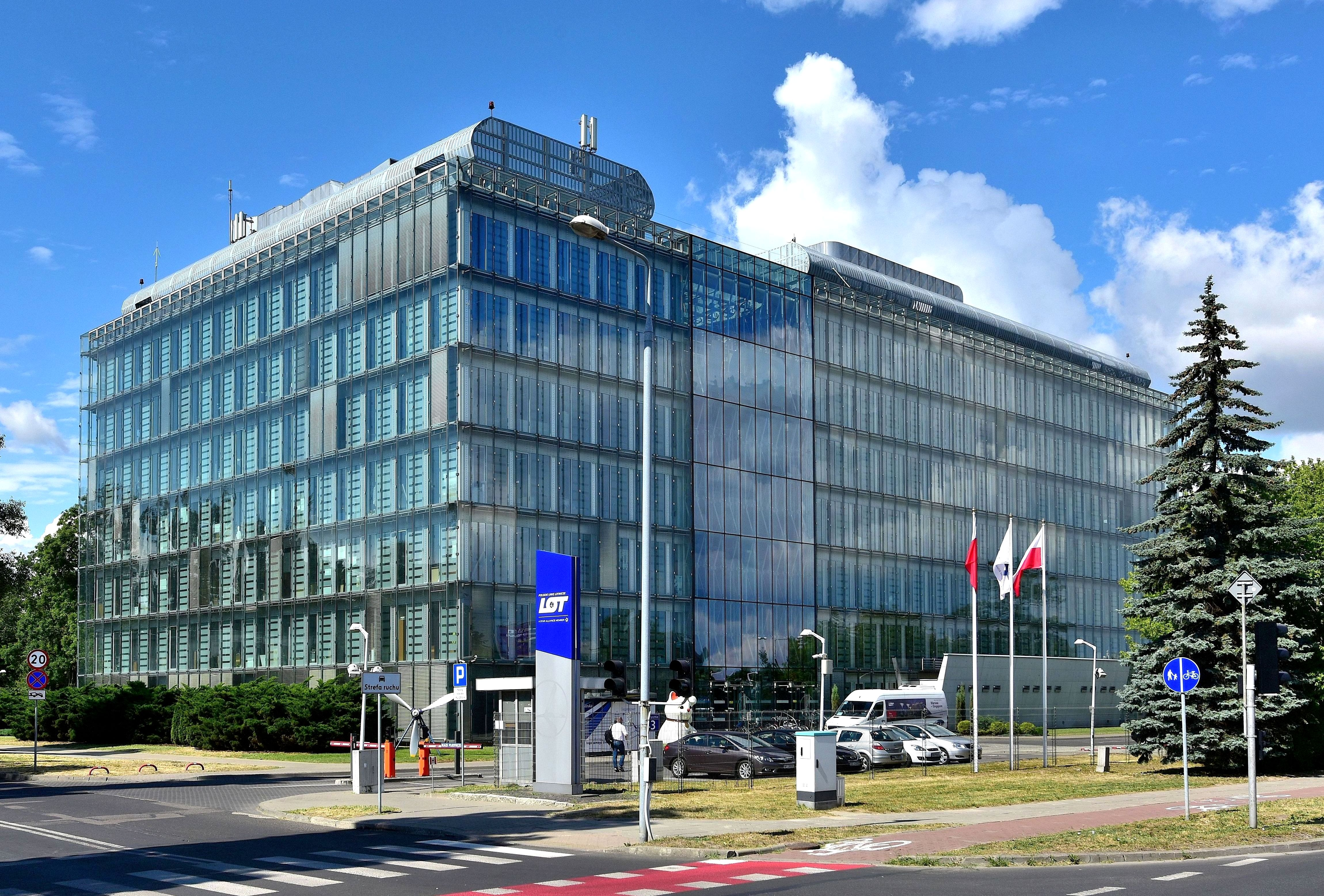 HQ of PPL LOT in Warsaw